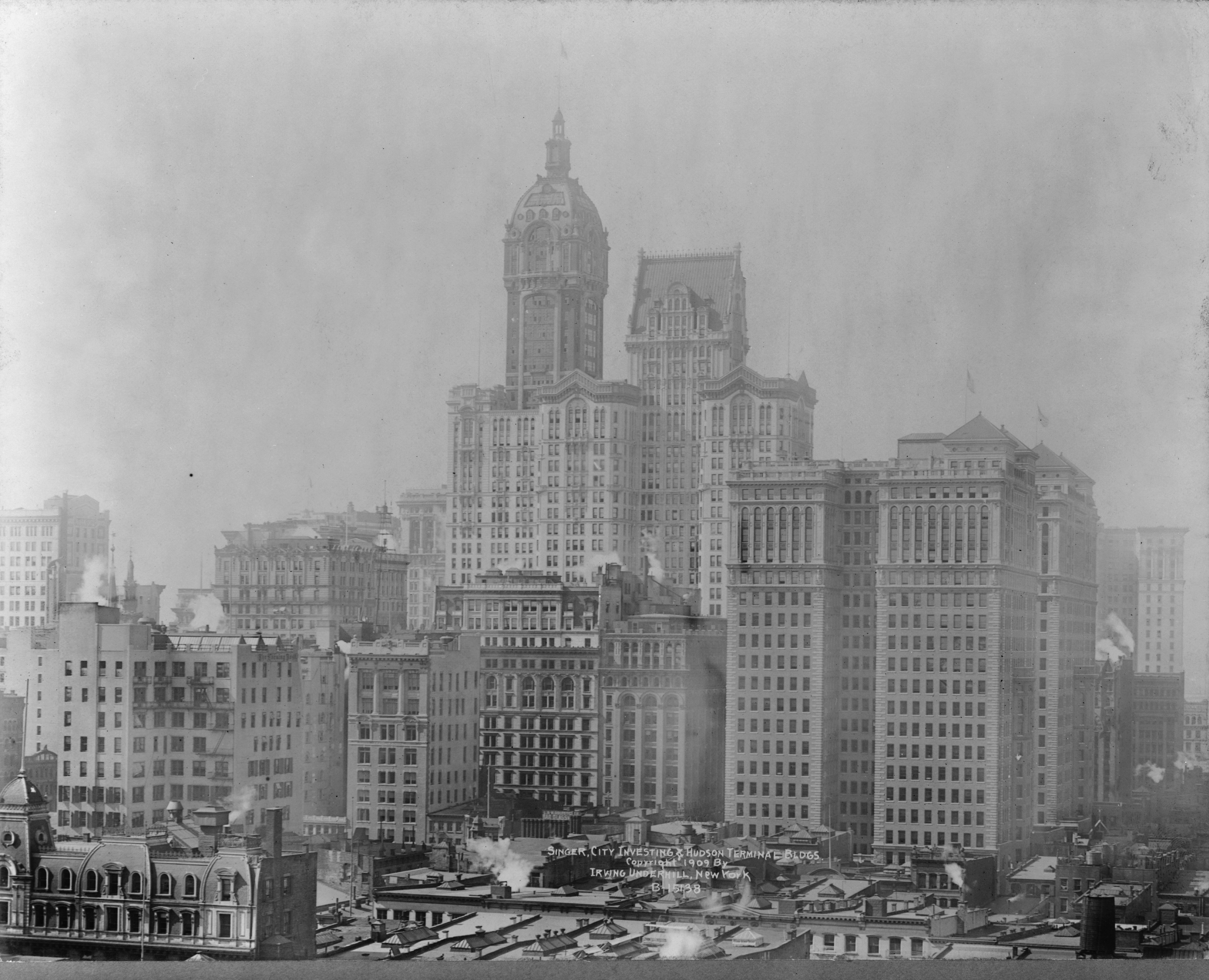 Singer, City Investing & Hudson Terminal Buildings, New York City (1909).